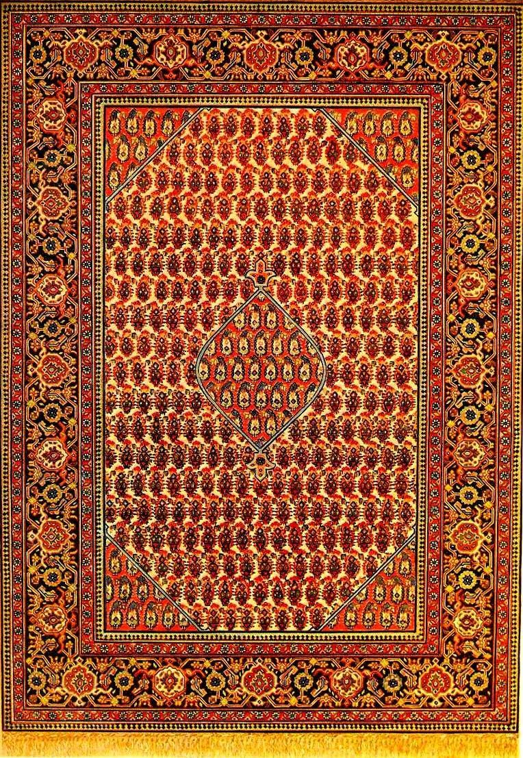 Mir rug, Ardebil school, XVII c.